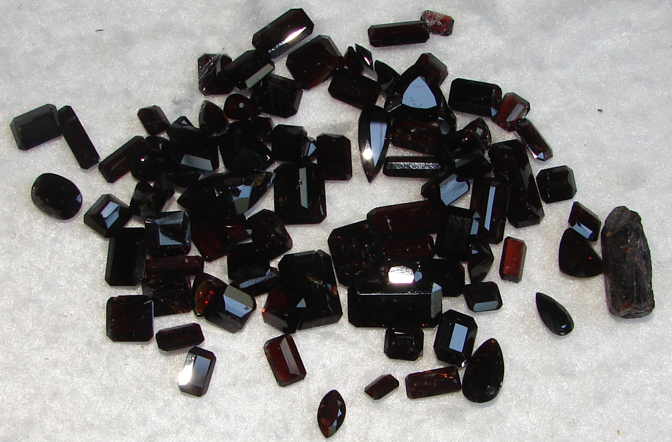 Staurolite cut from Minas Gerais, Brazil. Gem cutting by Afonso Marques